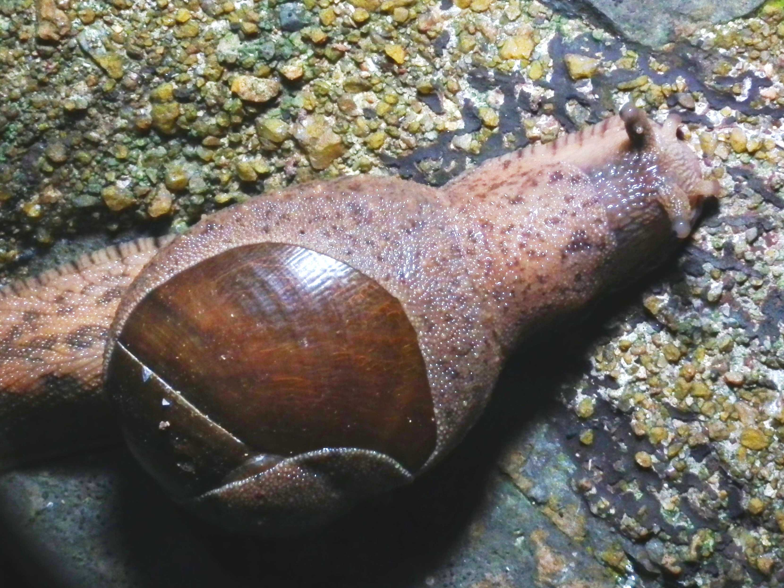 Megaustenia imperator from Hong Kong. Locality: Tai Po Kau, Hong Kong.